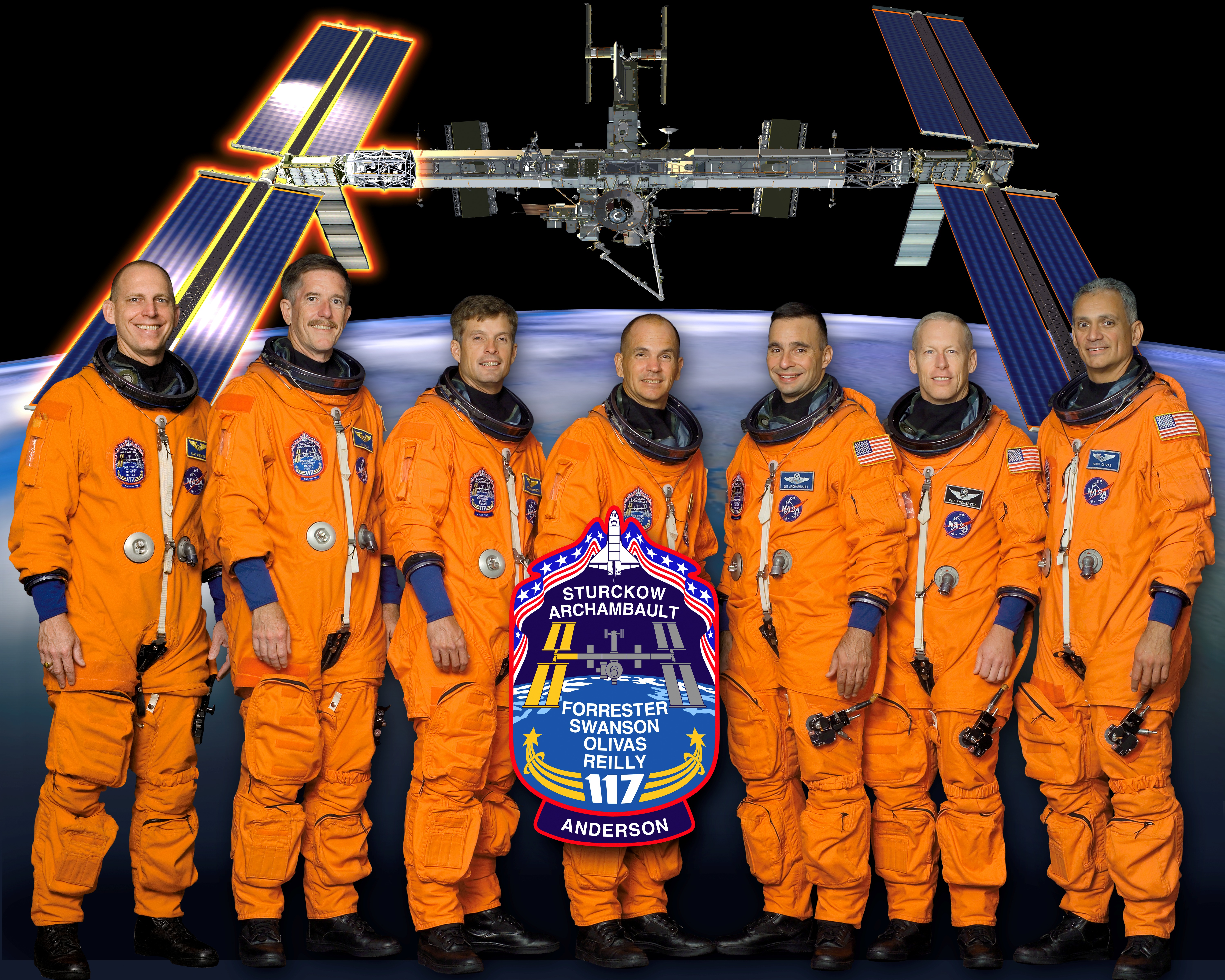 These seven astronauts take a break from training to pose for the STS-117 crew portrait. Scheduled to launch aboard the Space Shuttle Atlantis are (from the left) astronauts Clayton C. Anderson, James F. Reilly, Steven R. Swanson, mission specialists; Frederick W. Sturckow, commander; Lee J. Archambault, pilot; Patrick G. Forrester and John D. Olivas, mission specialists